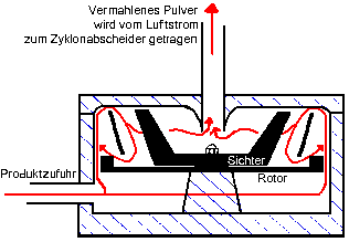 operating principle of a grinding mill